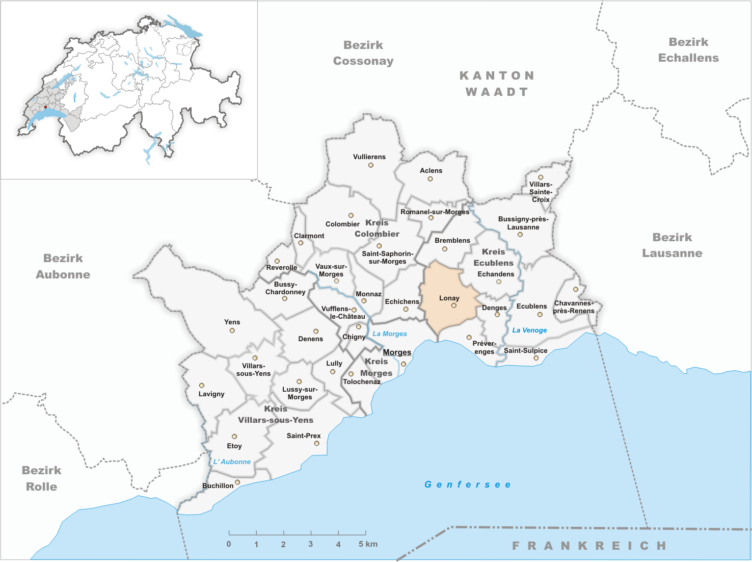 Municipality Lonay